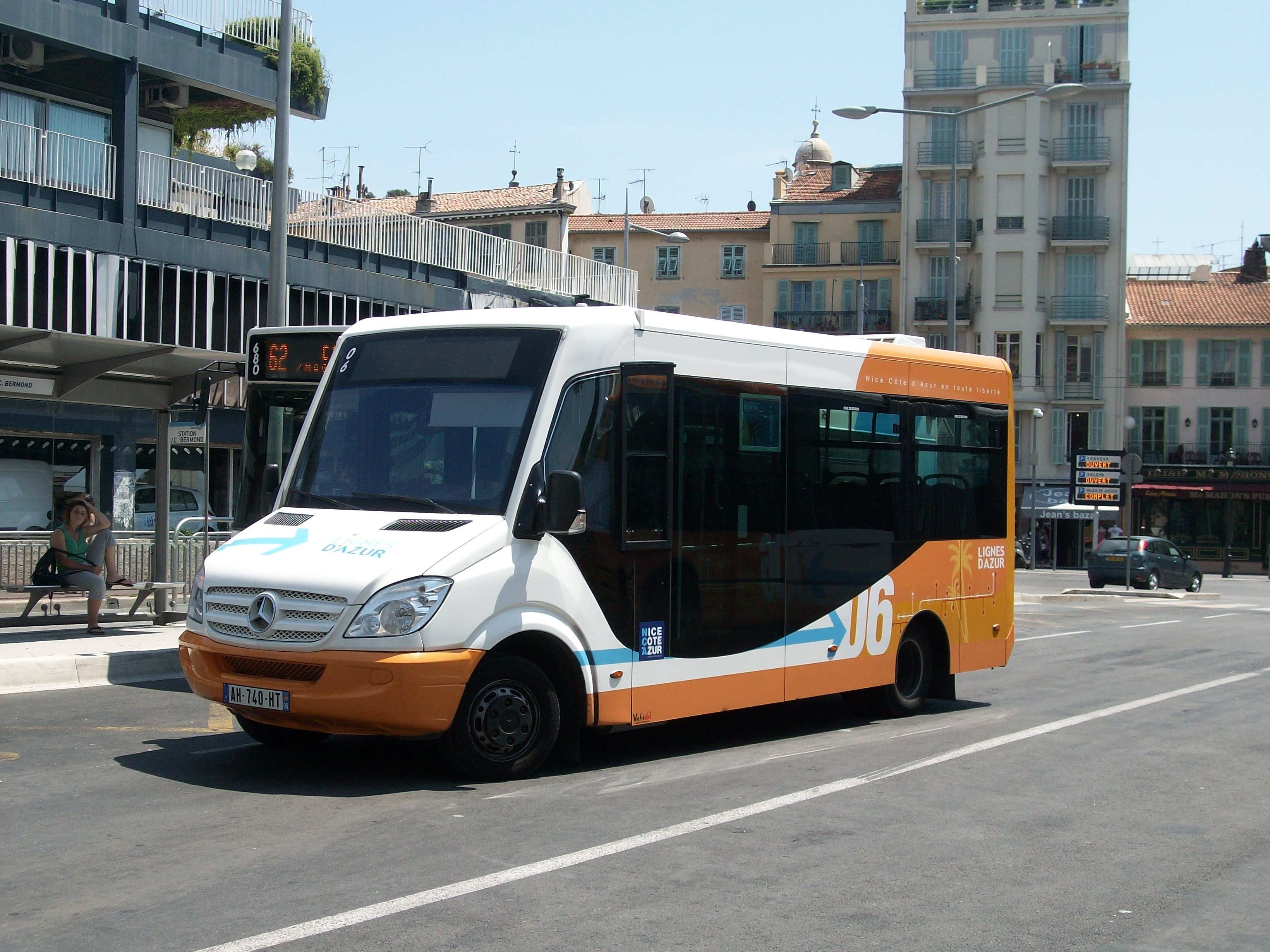 Vehixel Cytios at Nice